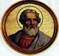 Portraits of Pope Soter in the Basilica of Saint Paul Outside the Walls, Rome